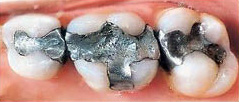 amalgam leaflet